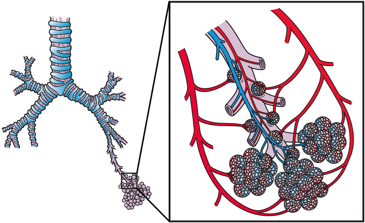 This slide shows the arterial and venous blood circulation of the pulmonary system.